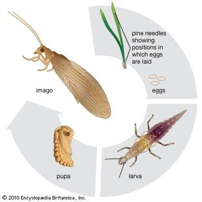 life cycle of the brown lacewing